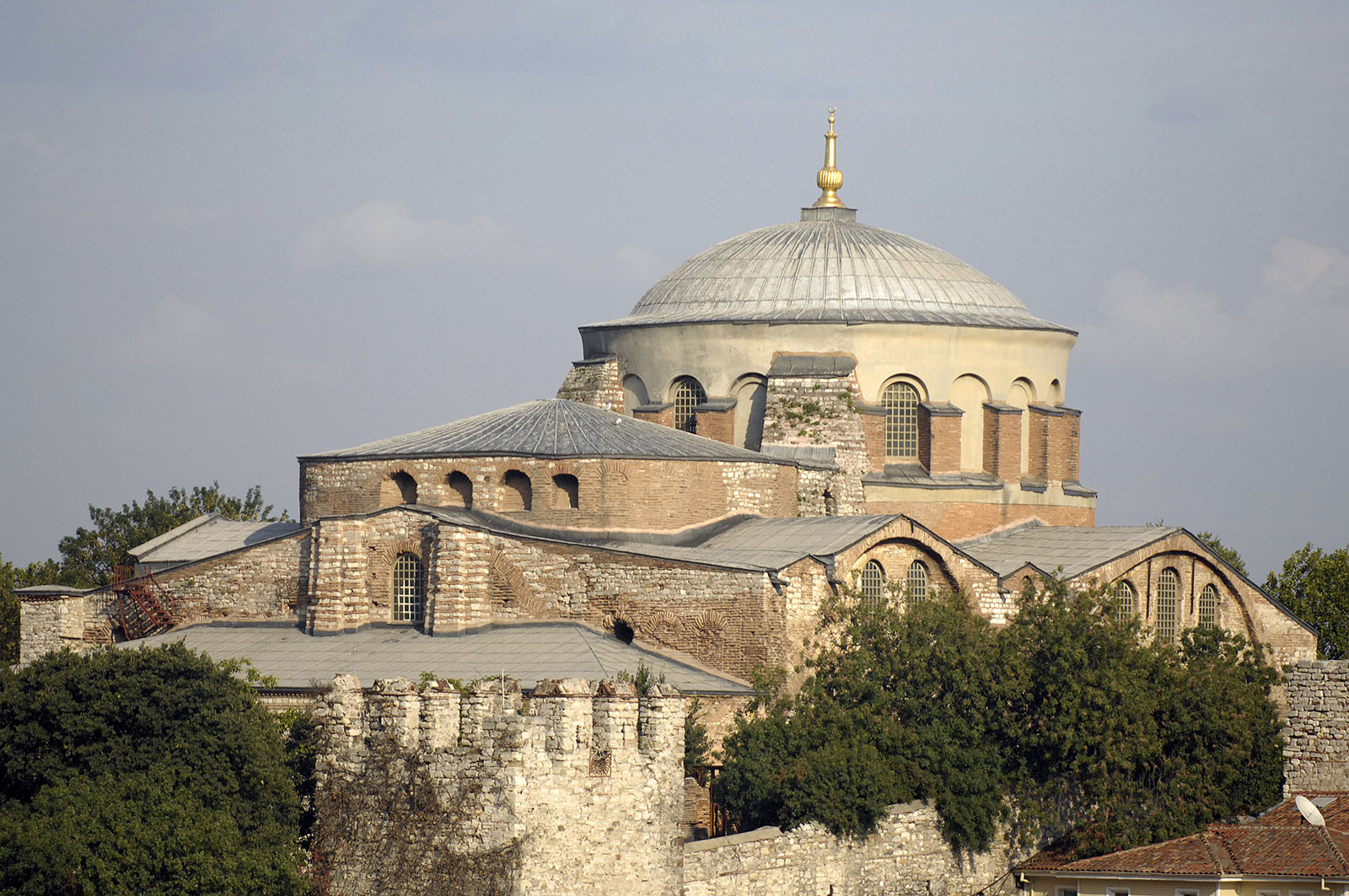 Seen from the northwest this is a shot of the top structures of the building.